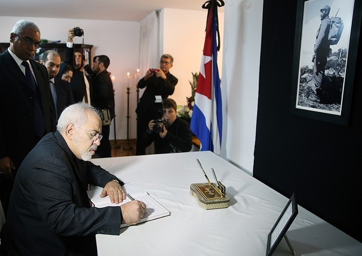 Iranian Foreign Minister Javad Zarif at the Cuban Embassy in Tehran after death of former President Fidel Castro